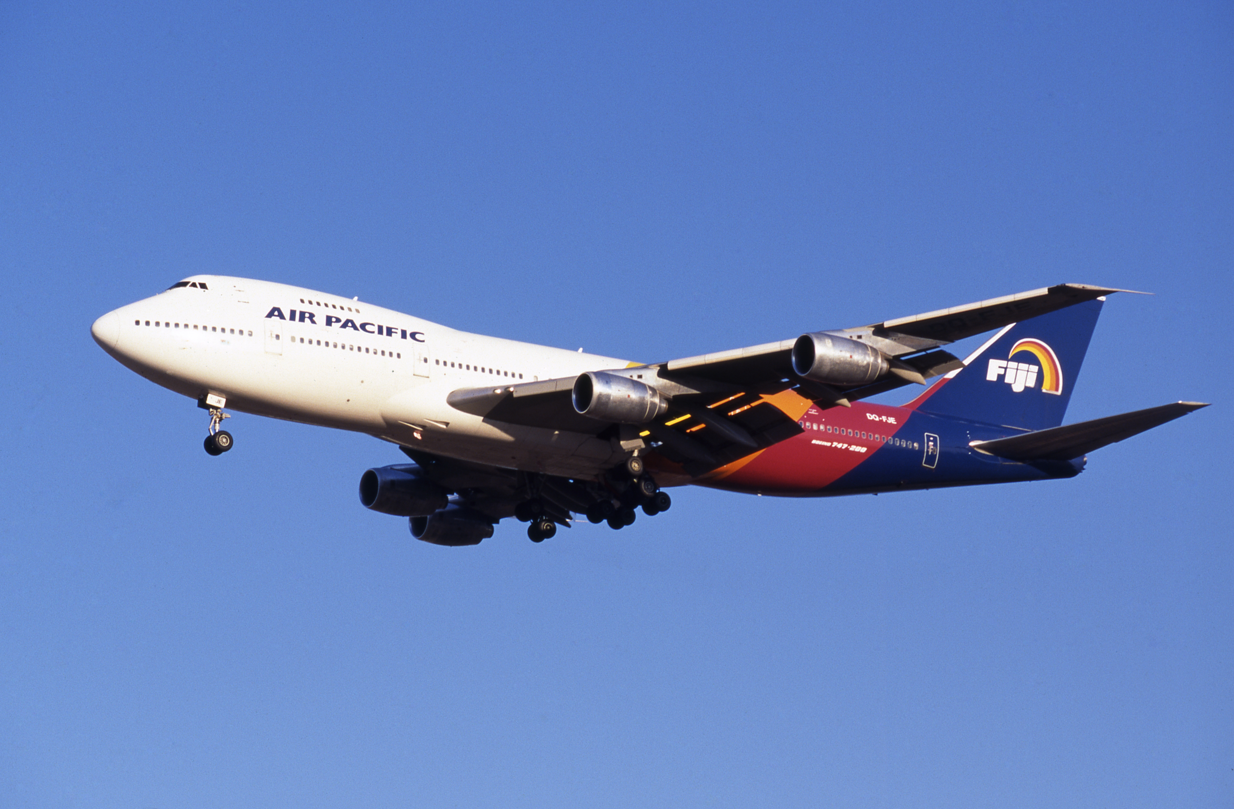 Air Pacific Boeing 747-200